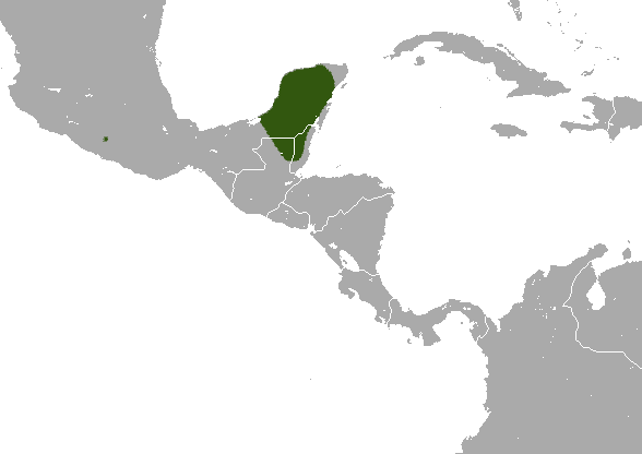 Yucatan Small-eared Shrew (Cryptotis mayensis) range